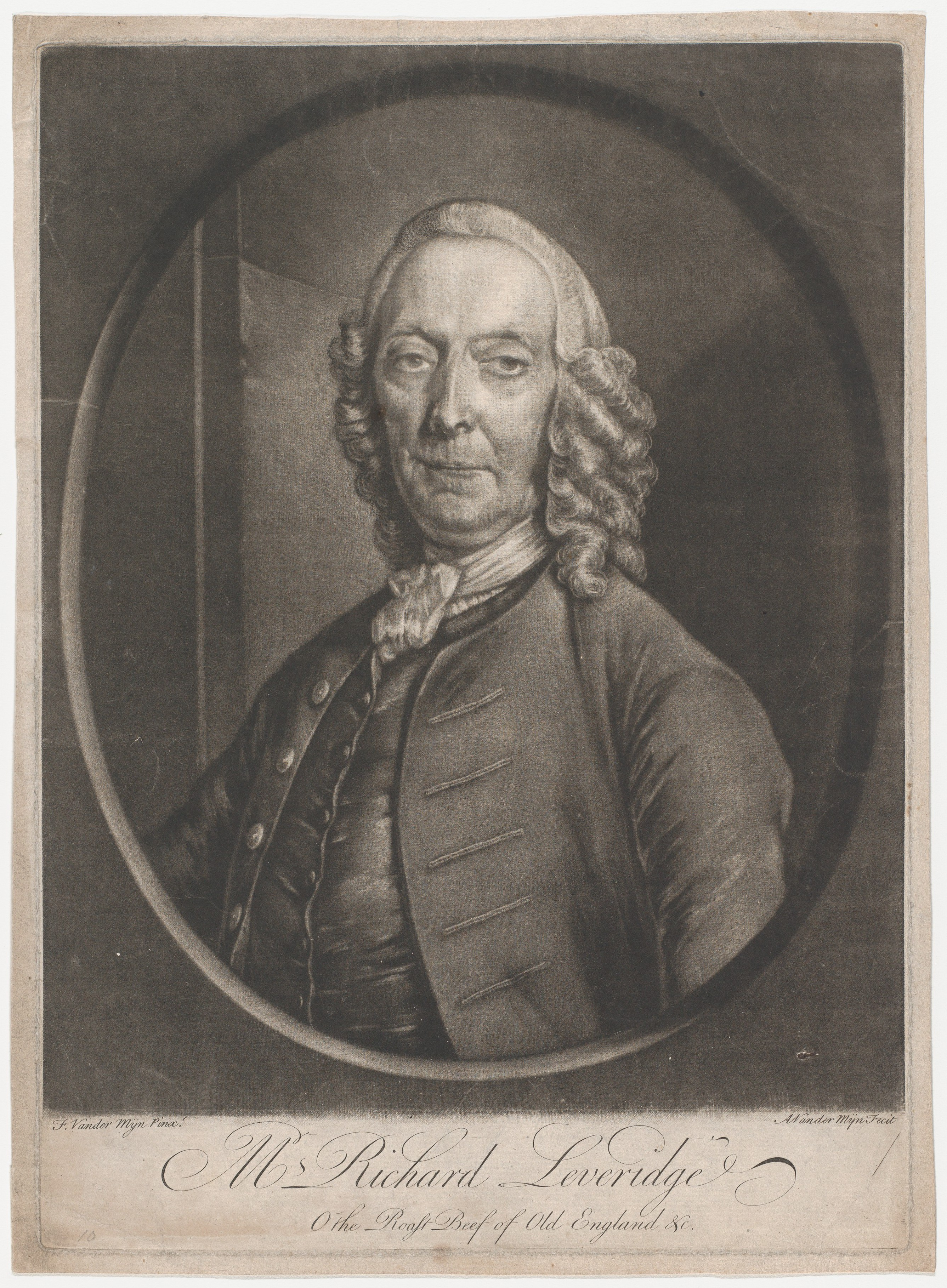 Print; Prints